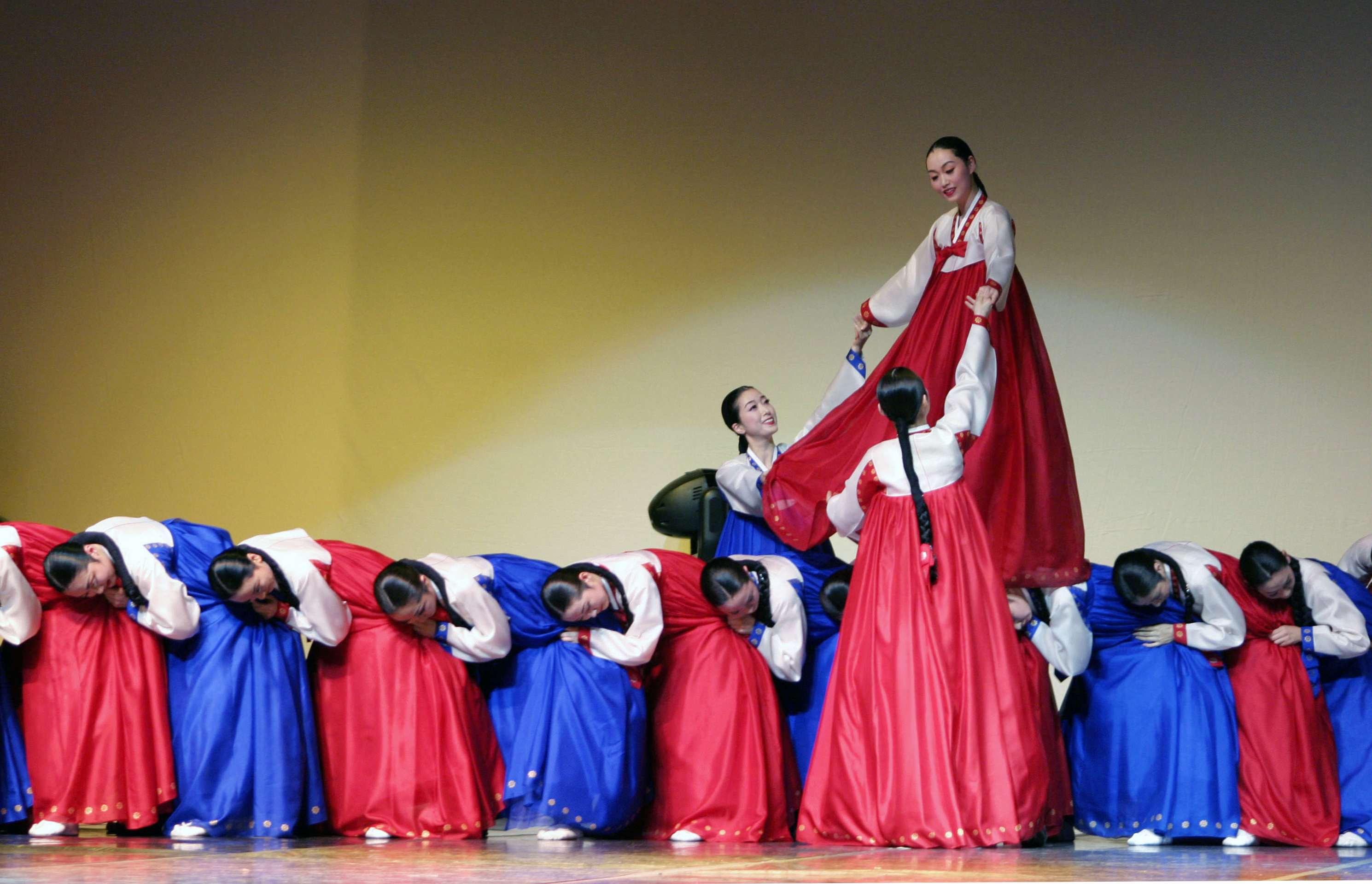 Korean traditional dance of Joseon Dynasty